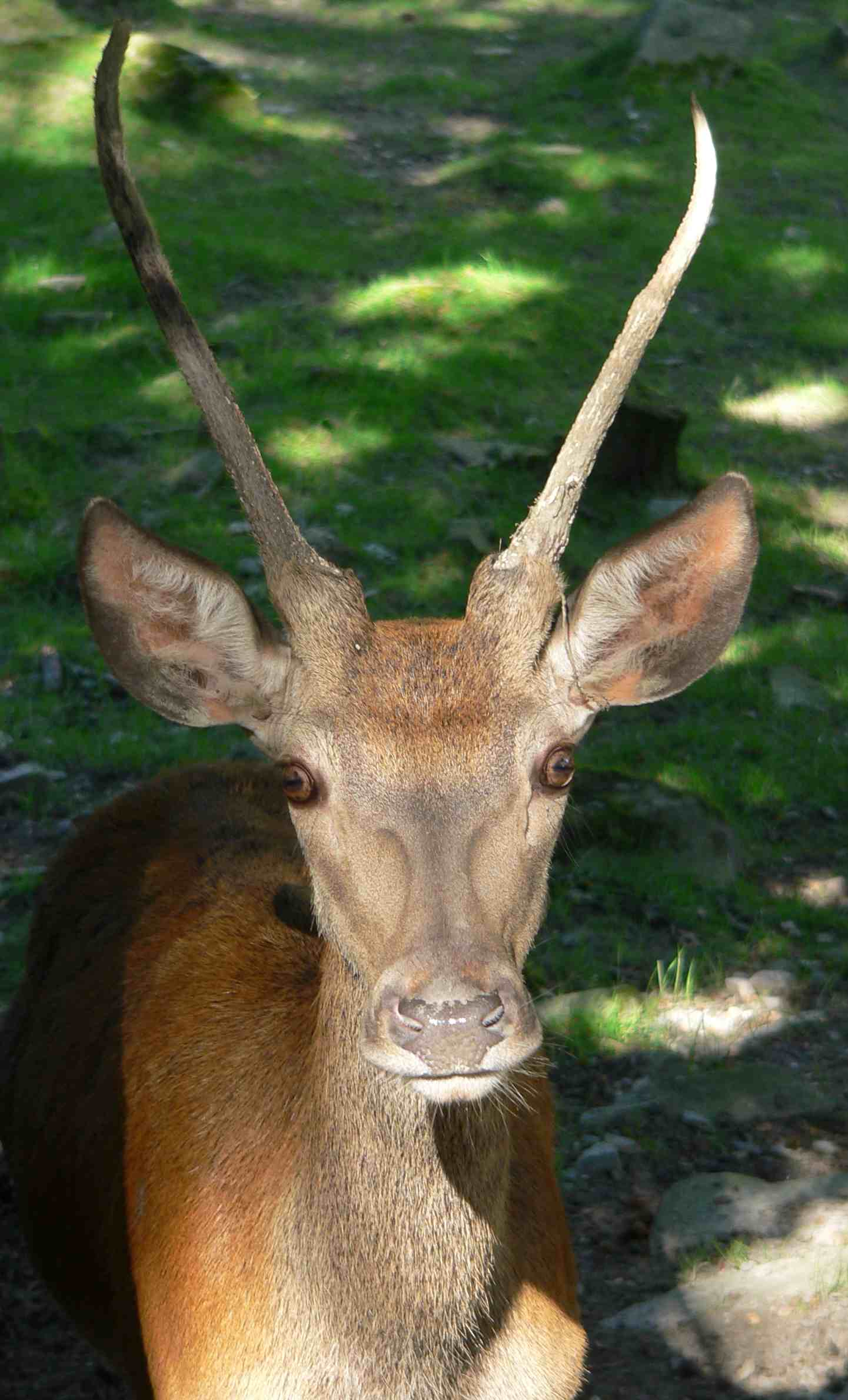 Cervus elaphus, male, second year